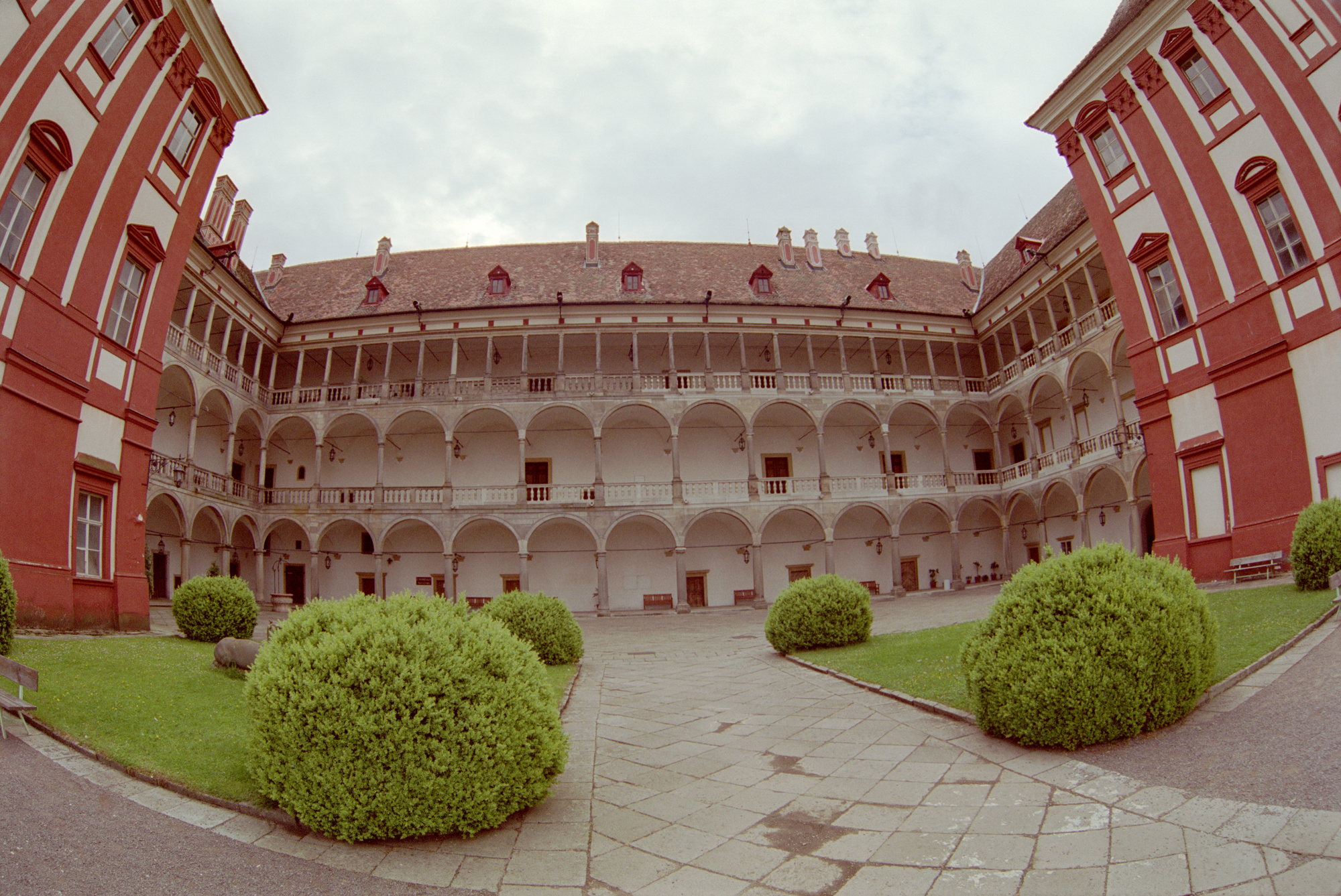 castle Opočno in Czech Republic, inside own picture, taken in spring 2006